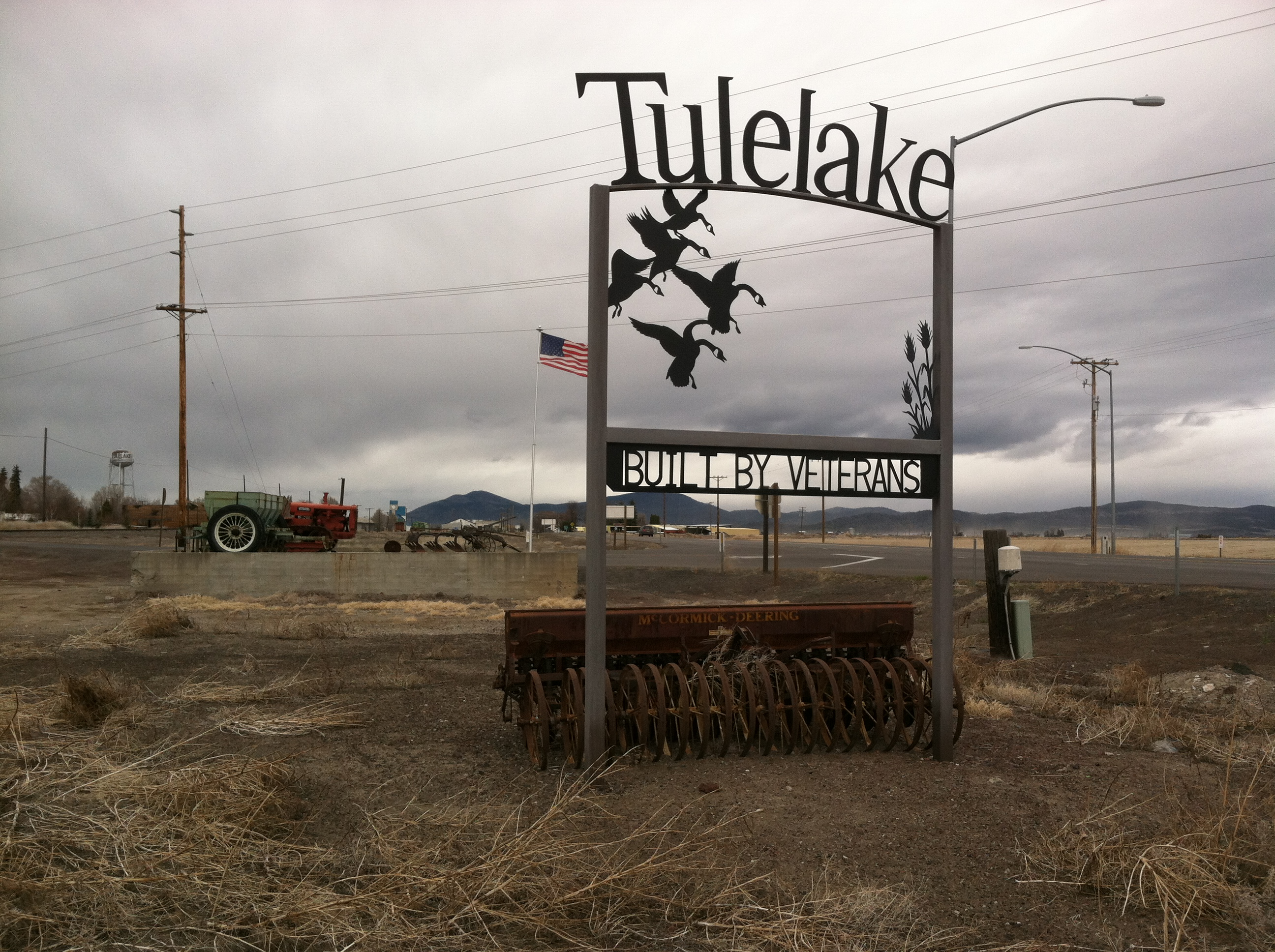 Welcome sign south entrance off highway 139 north bound ,tulelake California